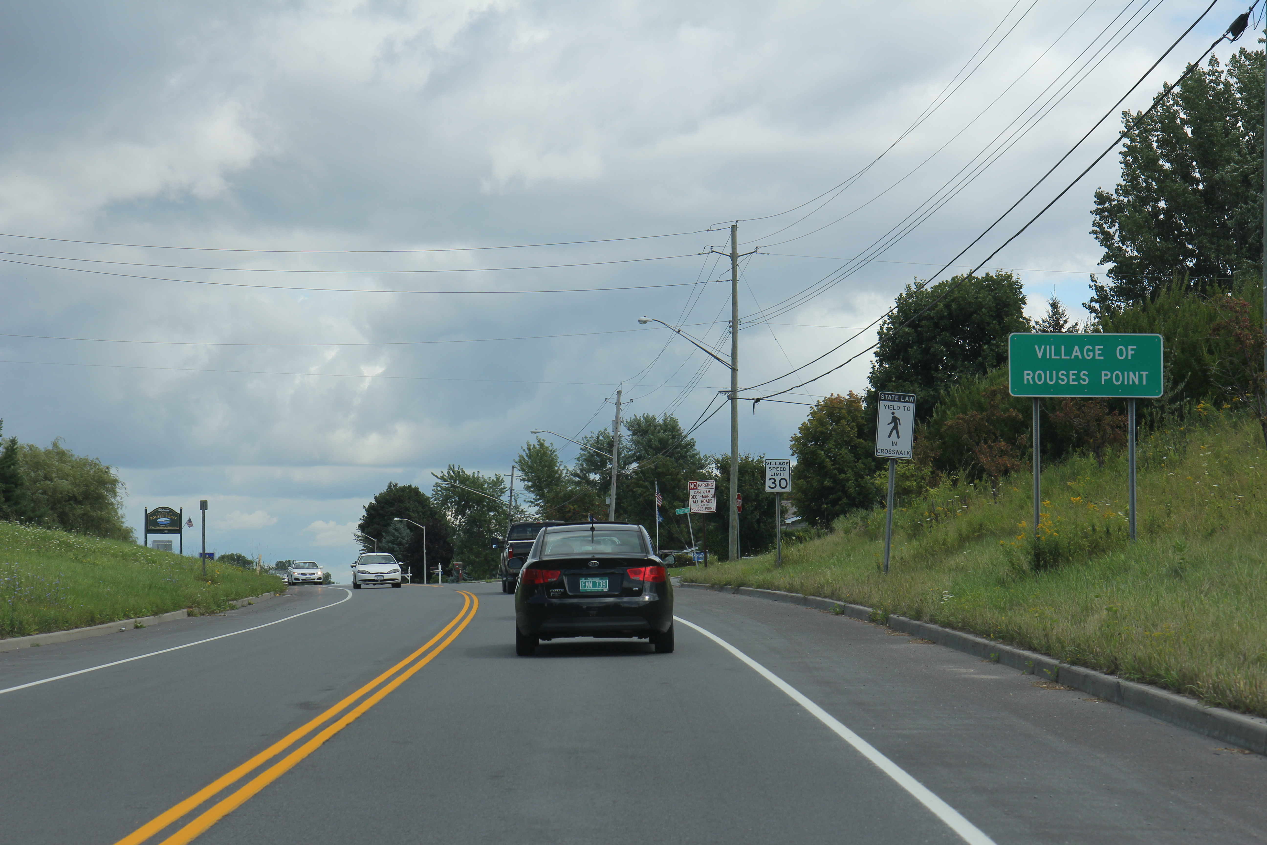 The sign for Rouses Point, NY on US11.